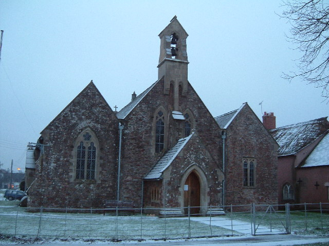 Triple-gabled church, Williton. This unusual church is in a back lane of Williton off Bridge Street. The photograph was taken as dusk was falling after a slight snowfall.